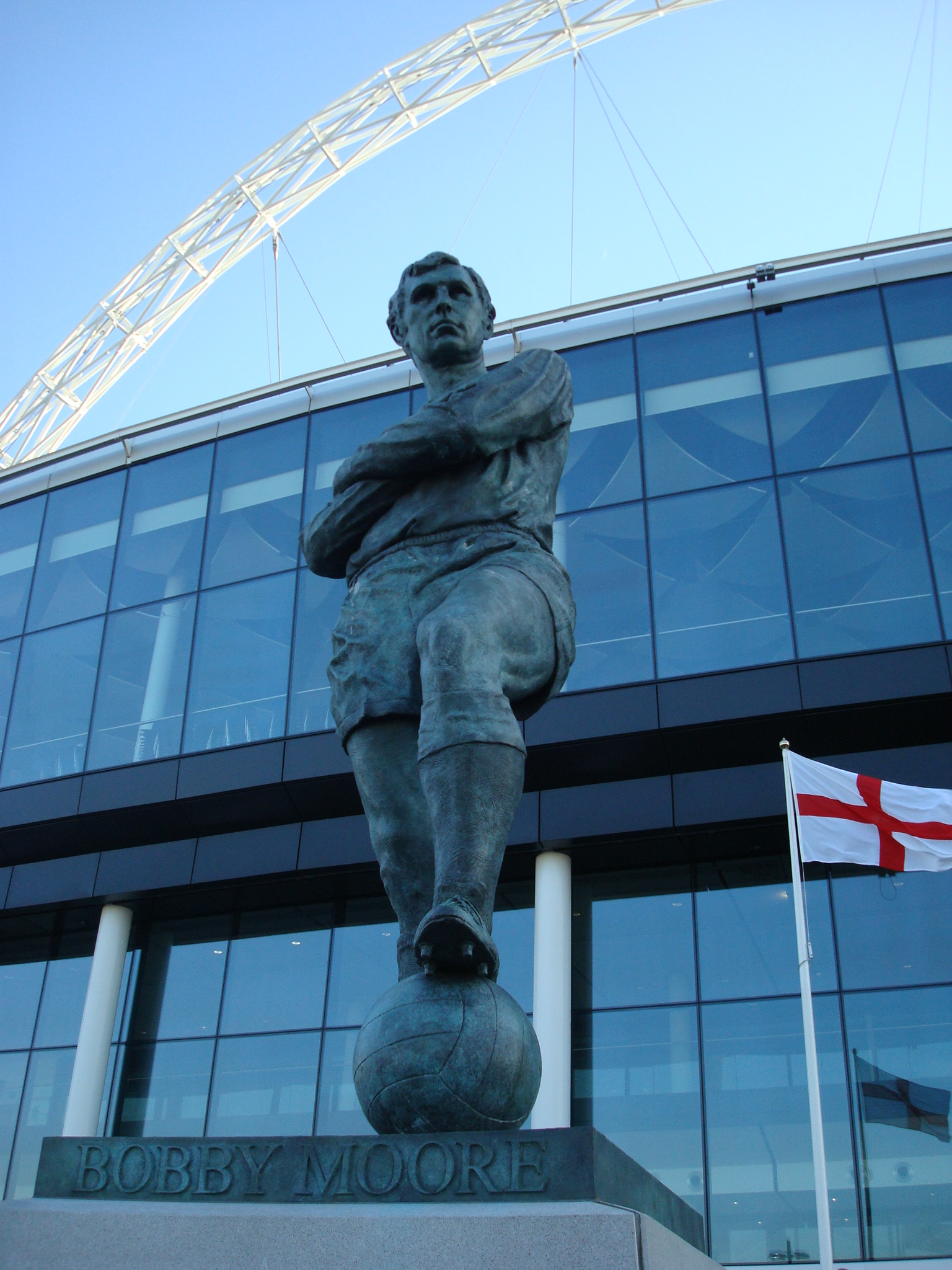 Bobby Moore Statue at Wembley Stadium